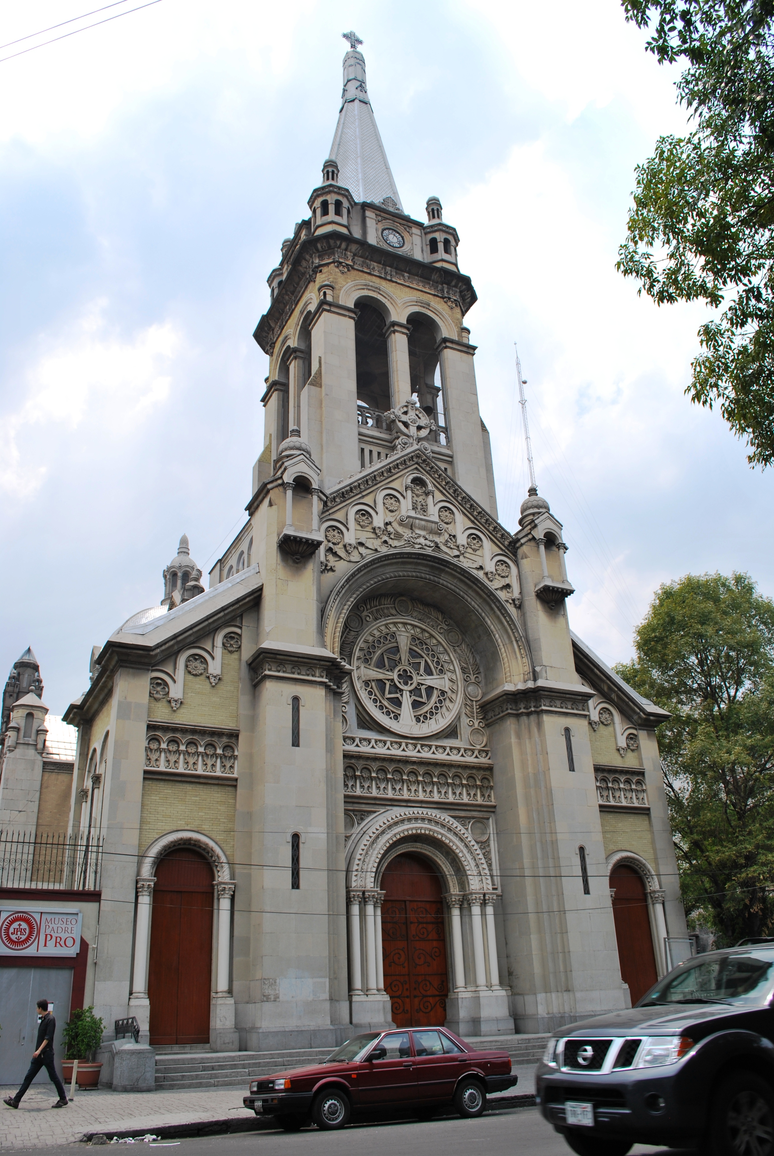 Sagrada Familia Parish in Colonia Roma, Mexico City